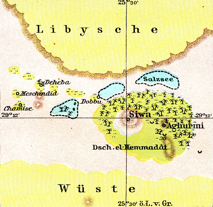 This is a part of an old atlas. It does not necessarily represent the current situation.